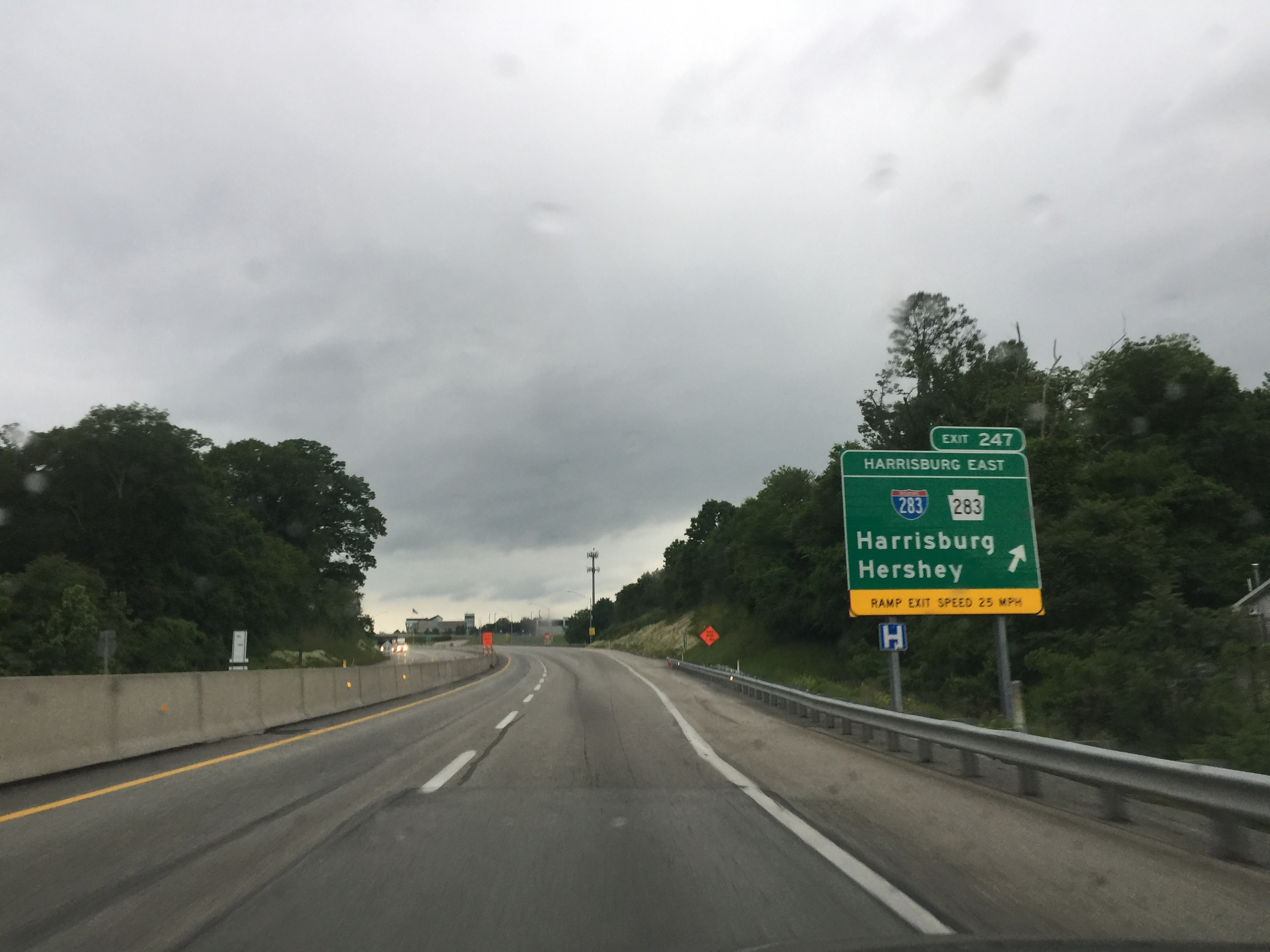 283 exit from Turnpike